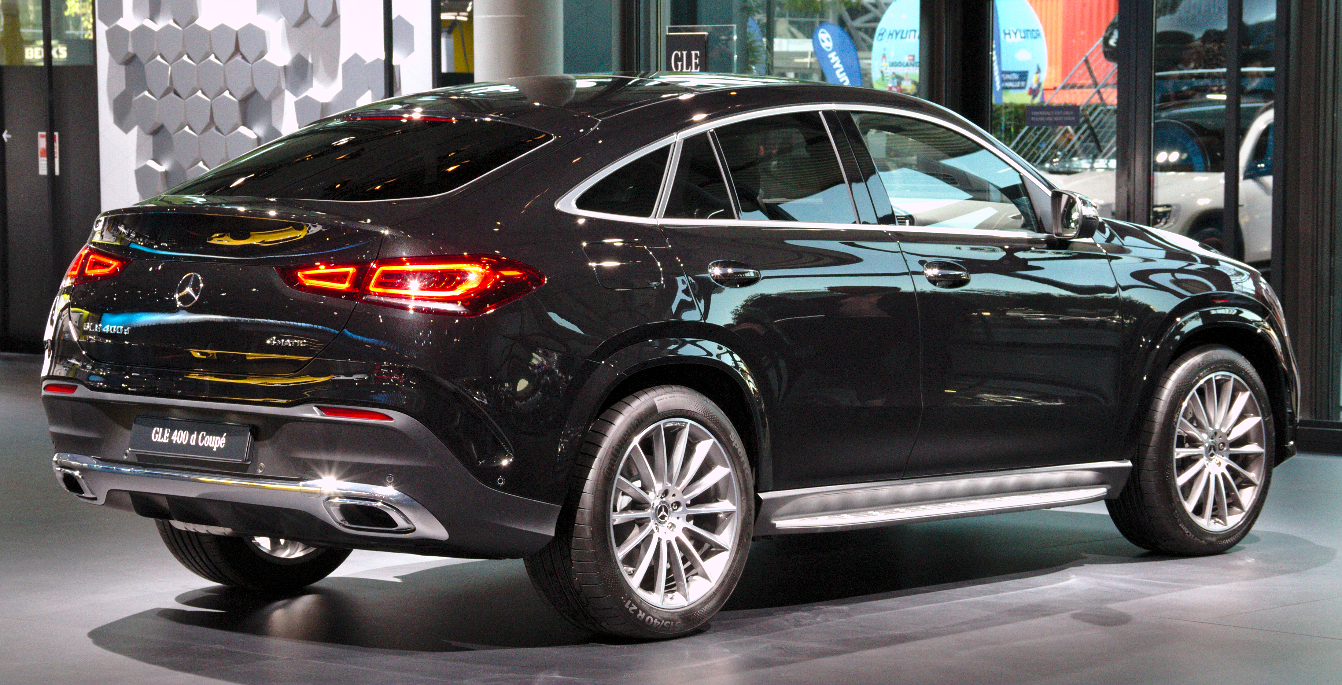 Mercedes-Benz_C167 at IAA 2019